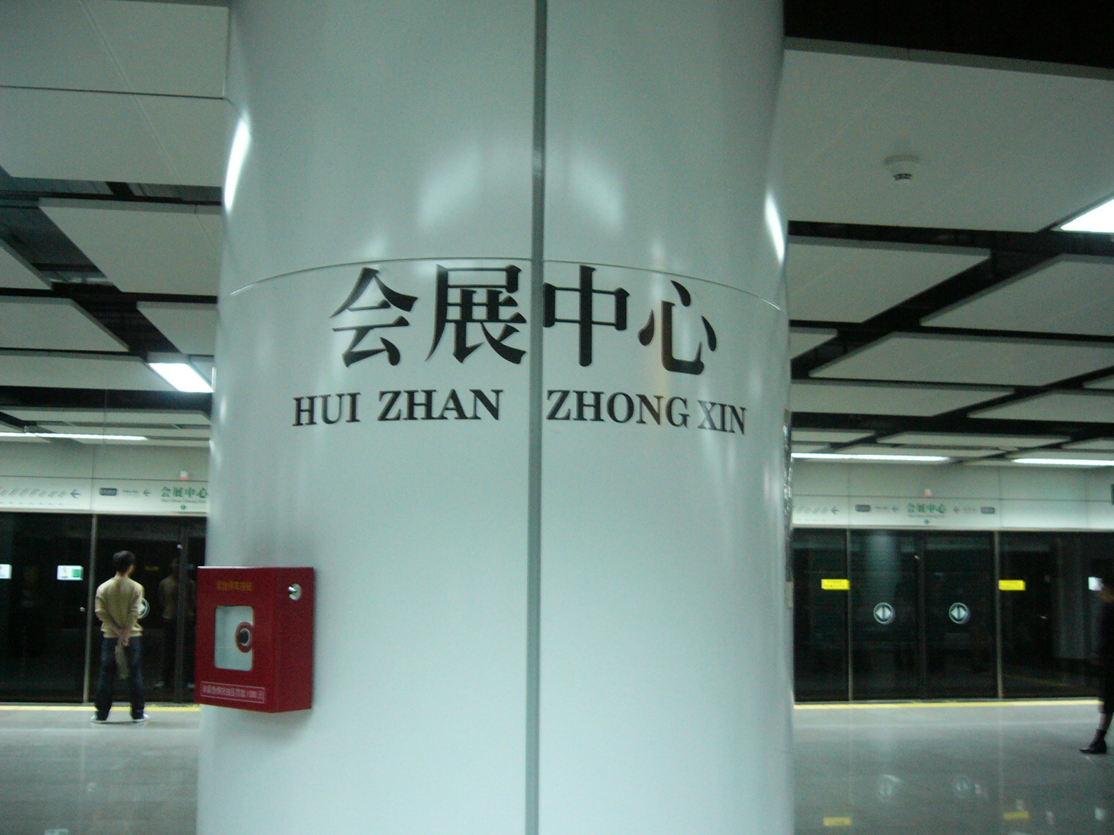 Shenzhen Metro Hui Zhan Zhong Xin Station: station name in both Chinese and English, seen on the Line 1 platform.